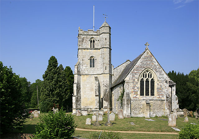 St Michael and All Angels parish church, Coombe Bissett Wiltshire, seen from the east